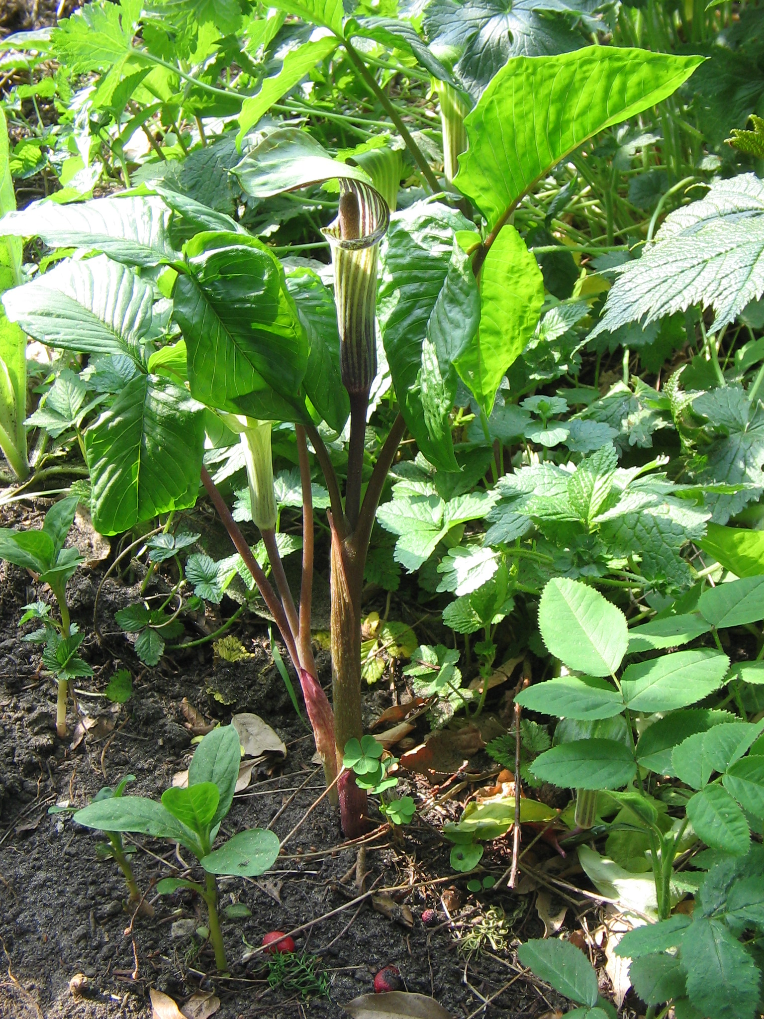 Arisaema triphyllum